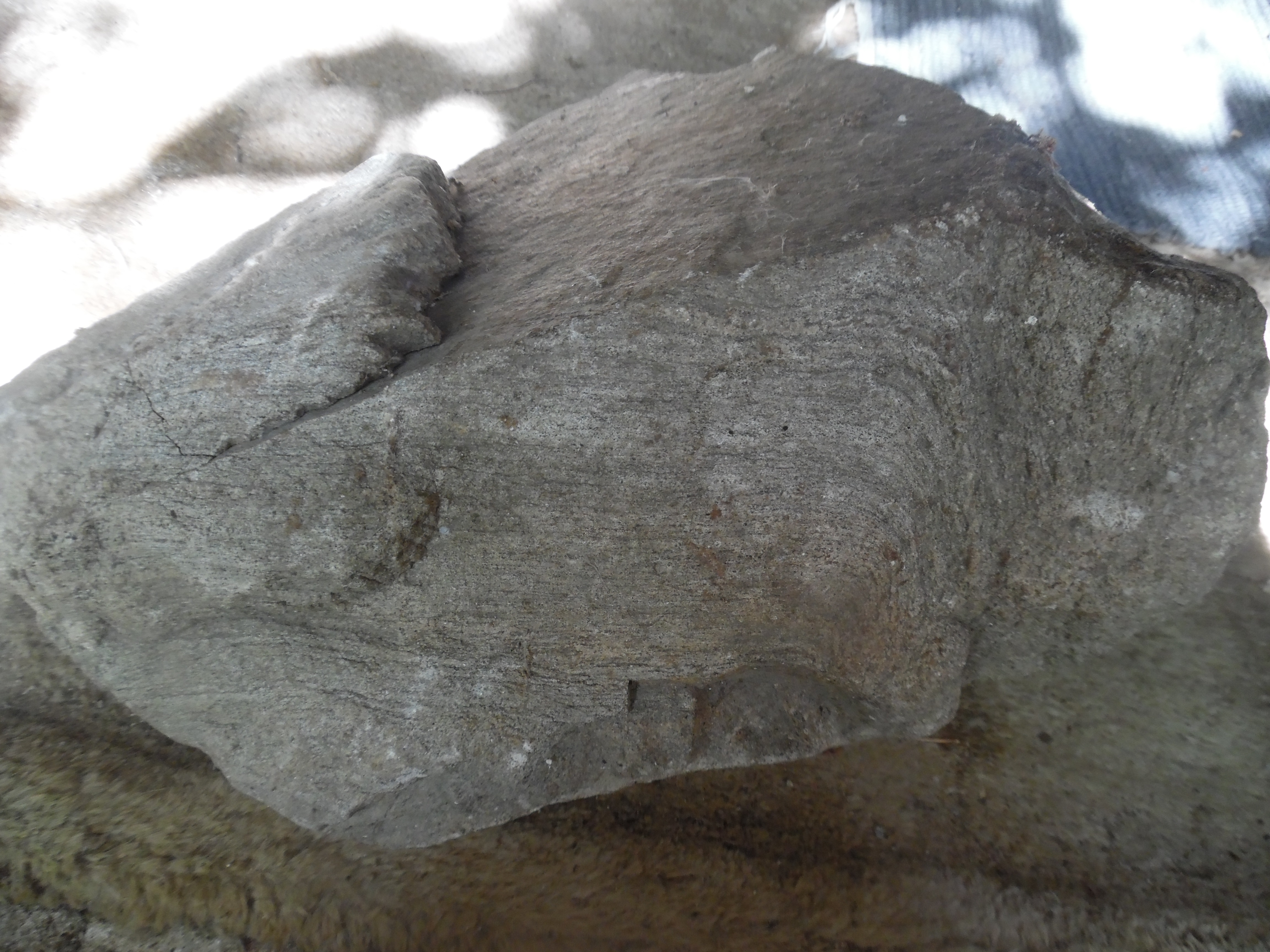 Paragneiss from the anatectic zone North of Saint-Pardoux-la-Rivière, Dordogne, France. The rock shows shear folding on the right hand side with hinge zone on the bottom.